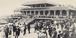 A picture of Hialeah Racetrack